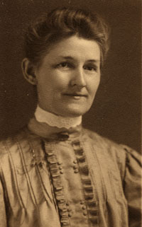 Picture